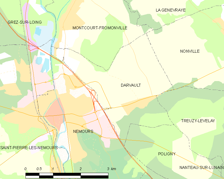 Map of French municipality Darvault